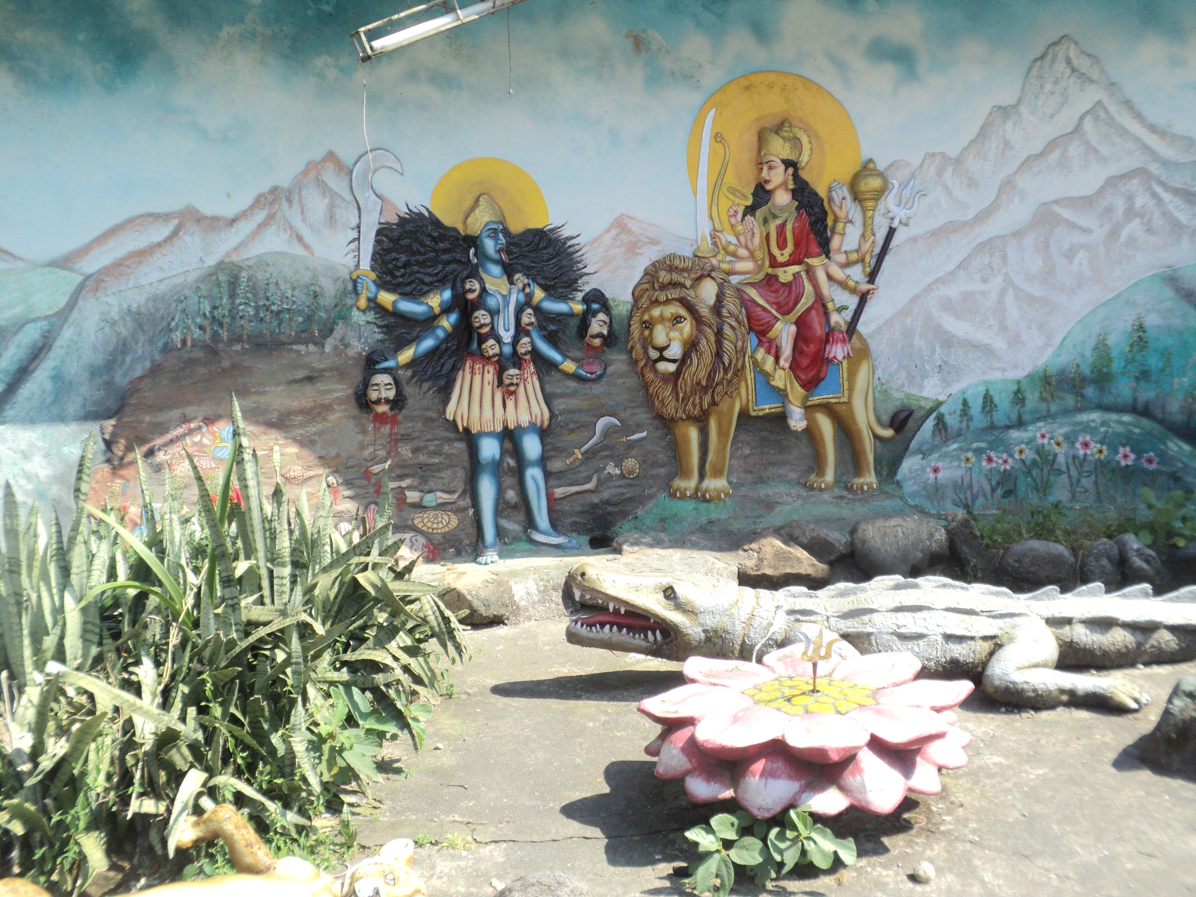 The temple depicts scenes from the ancient Hindu epics of Ramayana and Mahabharata.